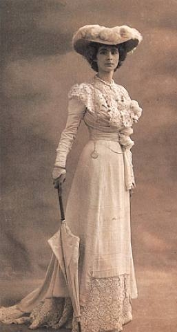 Baroness Olga de Meyer (In White with Parasol)